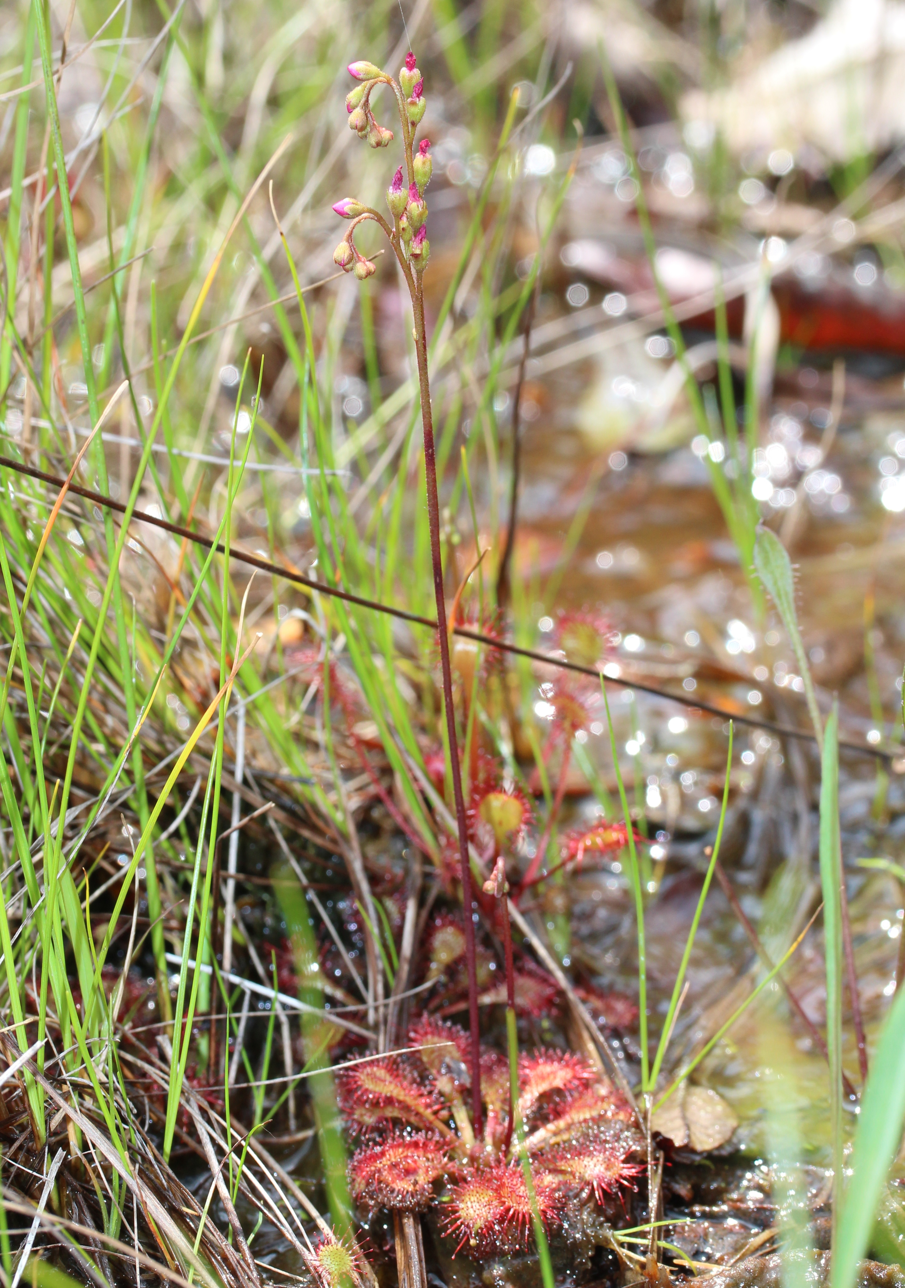 Drosera tokaiensis in Imou bog, Toyohashi, Aichi prefecture, Japan.